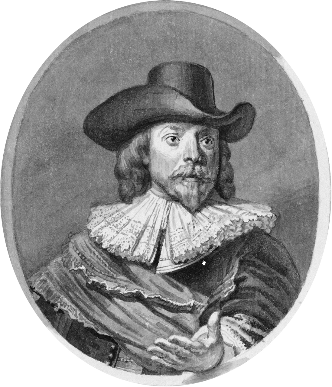 Portrait of Frans Banning Cocq